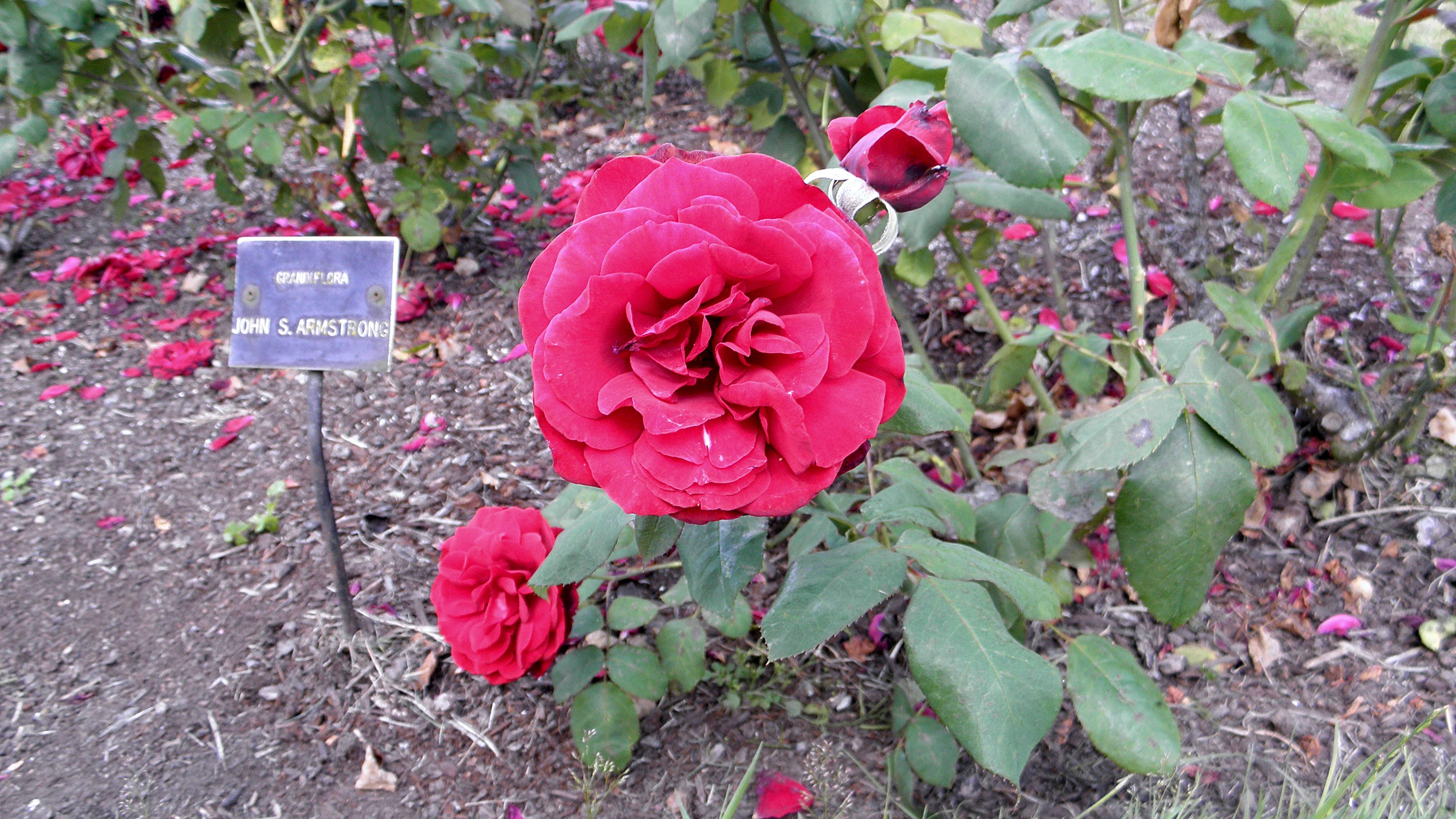 Grandiflora Rose 'John S. Armstrong'; Salem, Or. 97301